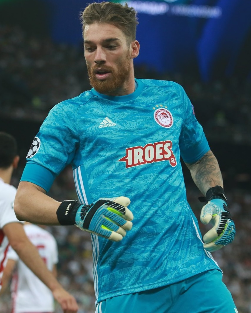 José Sá with Olympiacos FC in a Champions League qualifying game against FC Krasnodar.